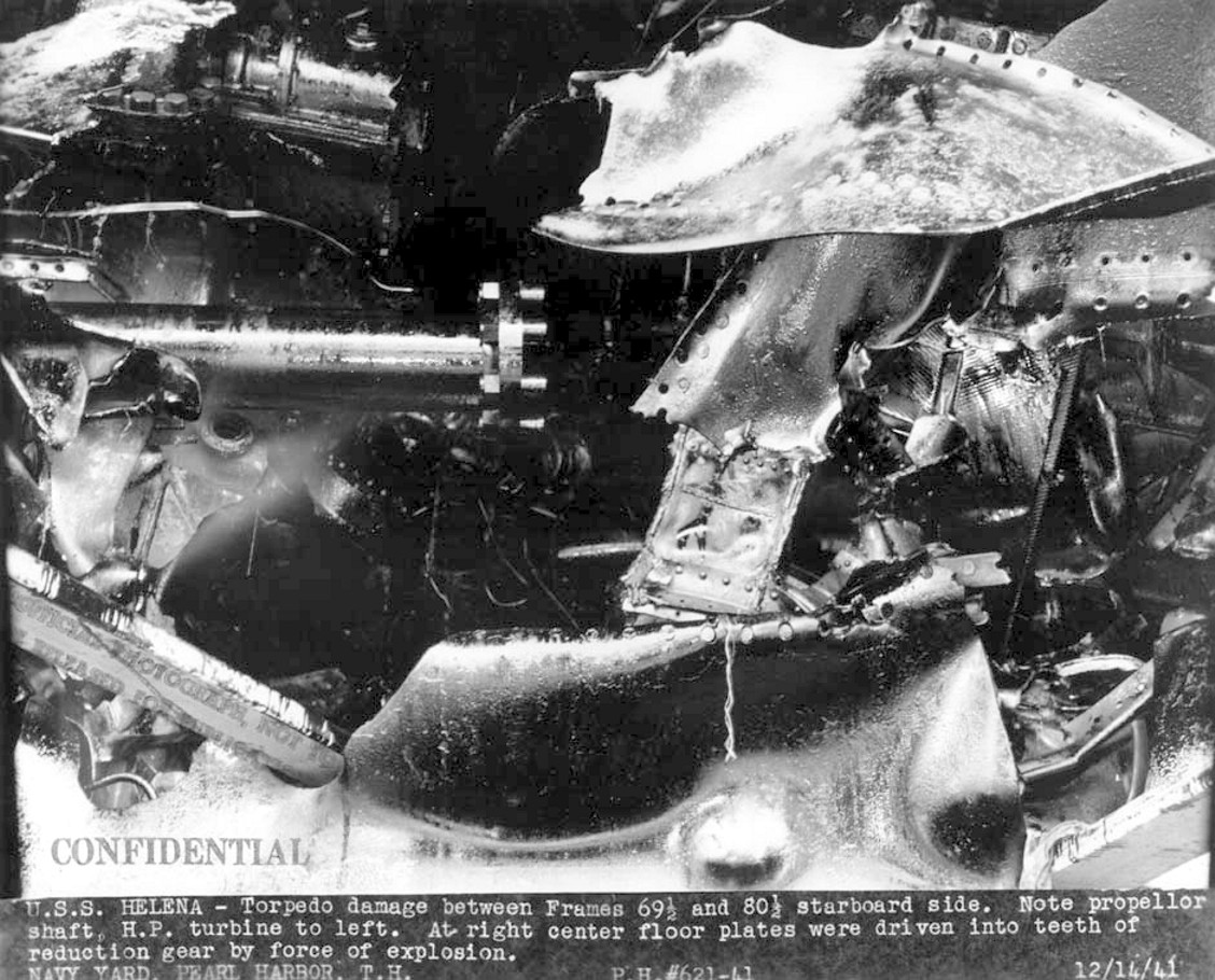 Torpoedo damage of the U.S. Navy light cruiser USS Helena (CL-50) as seen in a dry dock of the Pearl Harbor Naval Shipyard, 14 December 1941. The cruiser was hit by a torpedo during the Pearl Harbor Attack on 7 December 1941.